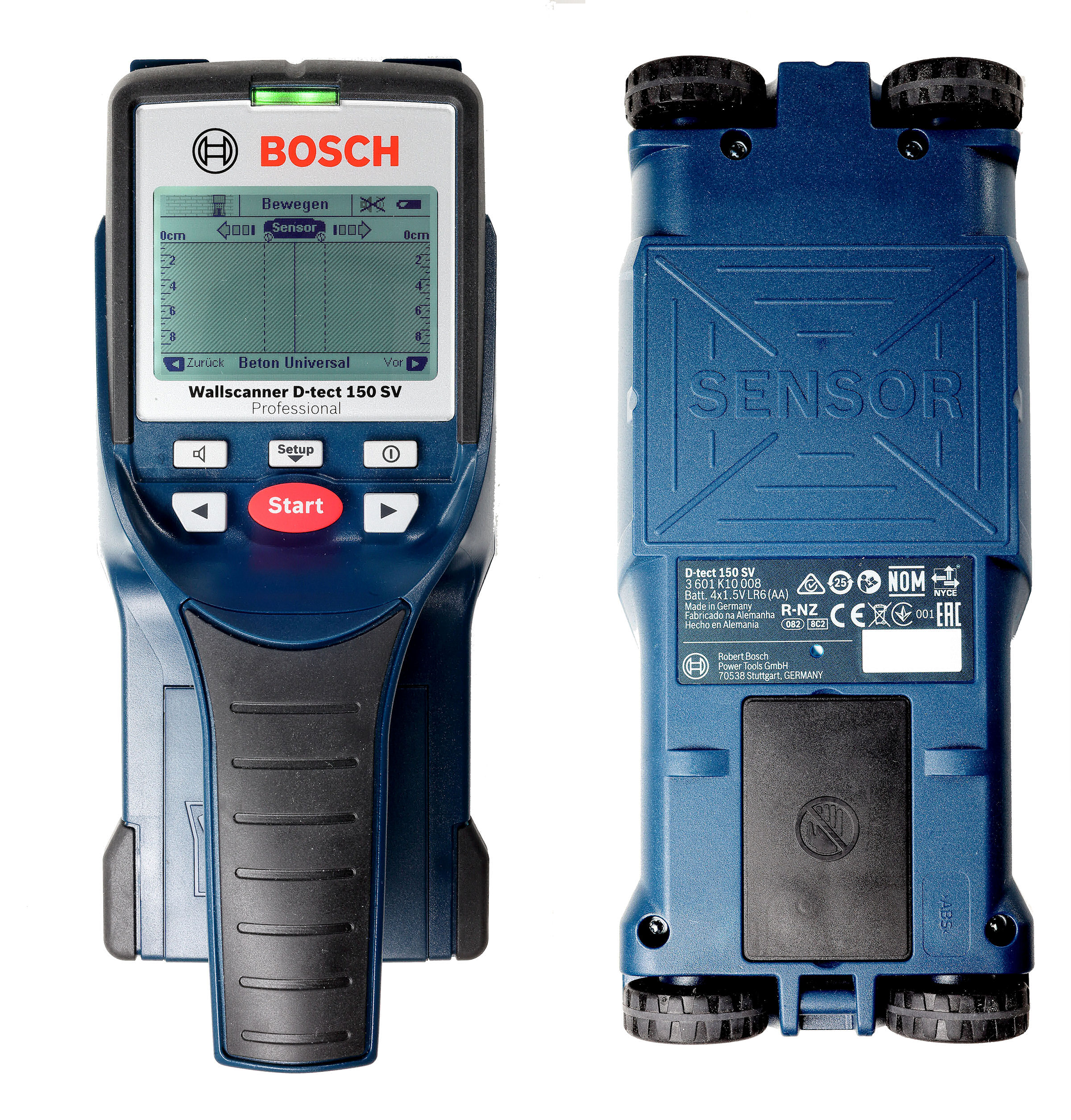 Front and back side of the wall scanner with indication of sensor area on the back side